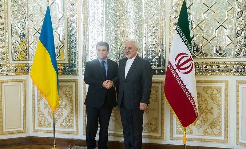 Iranian Foreign Minister Mohammad Javad Zarif meets with Ukrainian Foreign Minister Pavlo Klimkin